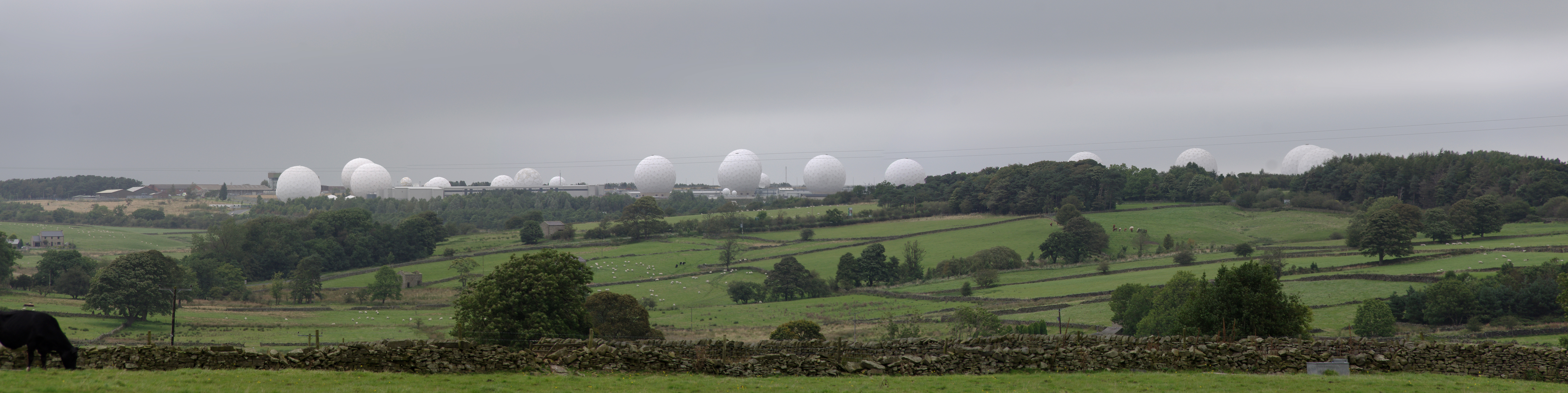 RAF Menwith Hill radar station, north of Harrogate in Yorkshire. This is a panorama which didn't quite work - I couldn't get rid of the wires satisfactorally.